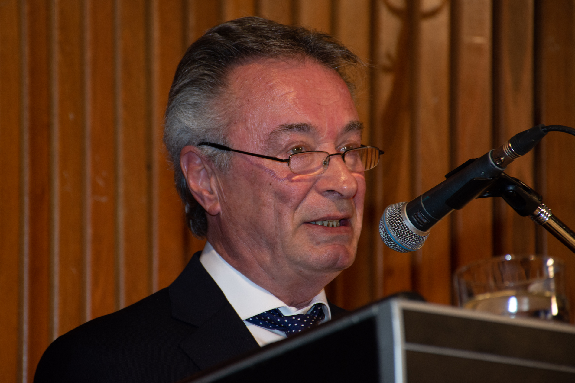 Academician Oscar Martinez at a public reception in Buenos Aires. 6 June, 2019. Picture by Carlos Mei / Secretaria de Cultura de la Nacion.